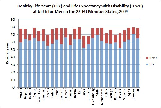 values of healthy life years